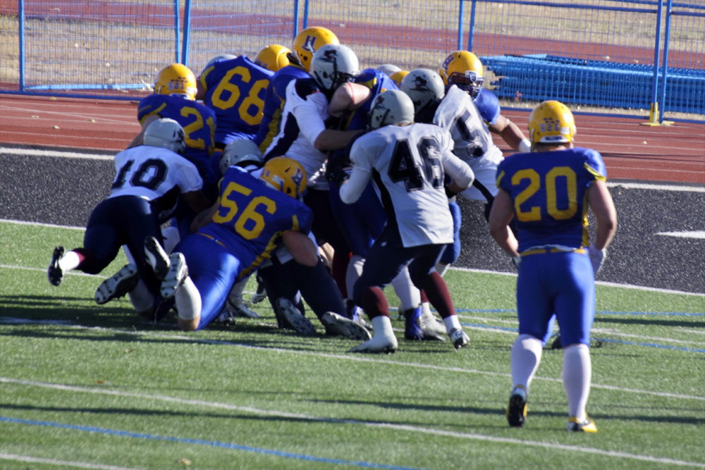 Sunday October 21, 2012 at 12:00 p.m. Junior Football game in the Prairie Football Conference (PFC). Canadian Junior Football League teams included Regina and Saskatoon. Saskatoon Hilltops were the home team at Griffiths Stadium in Potash Corp Park located on the grounds of the University of Saskatchewan home to the Saskatoon Huskies football team. . The game concluded at Saskatoon Hilltops 37 - 0 Regina Thunder. The Hilltops are the PFC champions acquiring their 15th championship trophy at the 36th PFC Championship game. The champion of the PFC final will receive the hosting rights for the Jostens Cup. The Jostens Cup is played between the Ontario Football Conference OC Champion and PFC Champion Teams with the PFC hosting the 2012 Josten's Cup game. The Jostens Cup winner goes on to play the British Columbia Football Conference Champion for the Canadian Bowl Championship Saturday November 10, 2012 at 1:00 pm with the BCFC hosting the game. THIS PLAY Defensive All-Star linebacker #10 Yianni Cabylis of the Regina Thunder seen here taking down Hilltops number 21 right back Tom Shockey. Play was Hilltops second and short on 11 yard line, this tackle stopped the play on the six yard line.